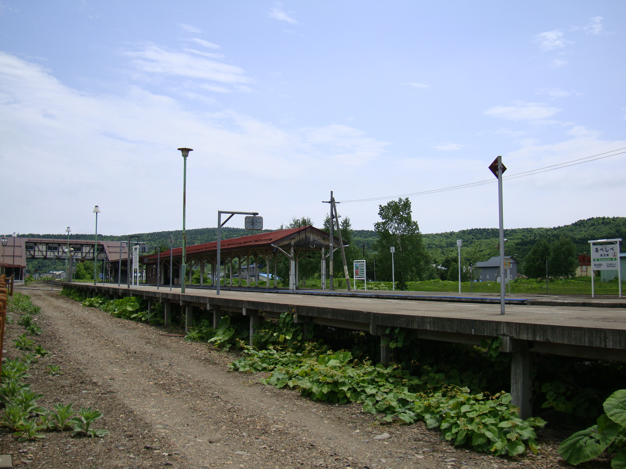 Rubeshibe Station